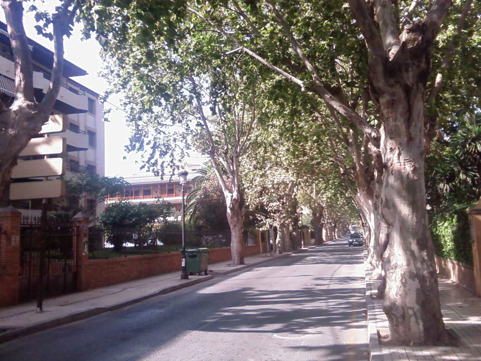 Paseo del Limonar, Málaga, Spain